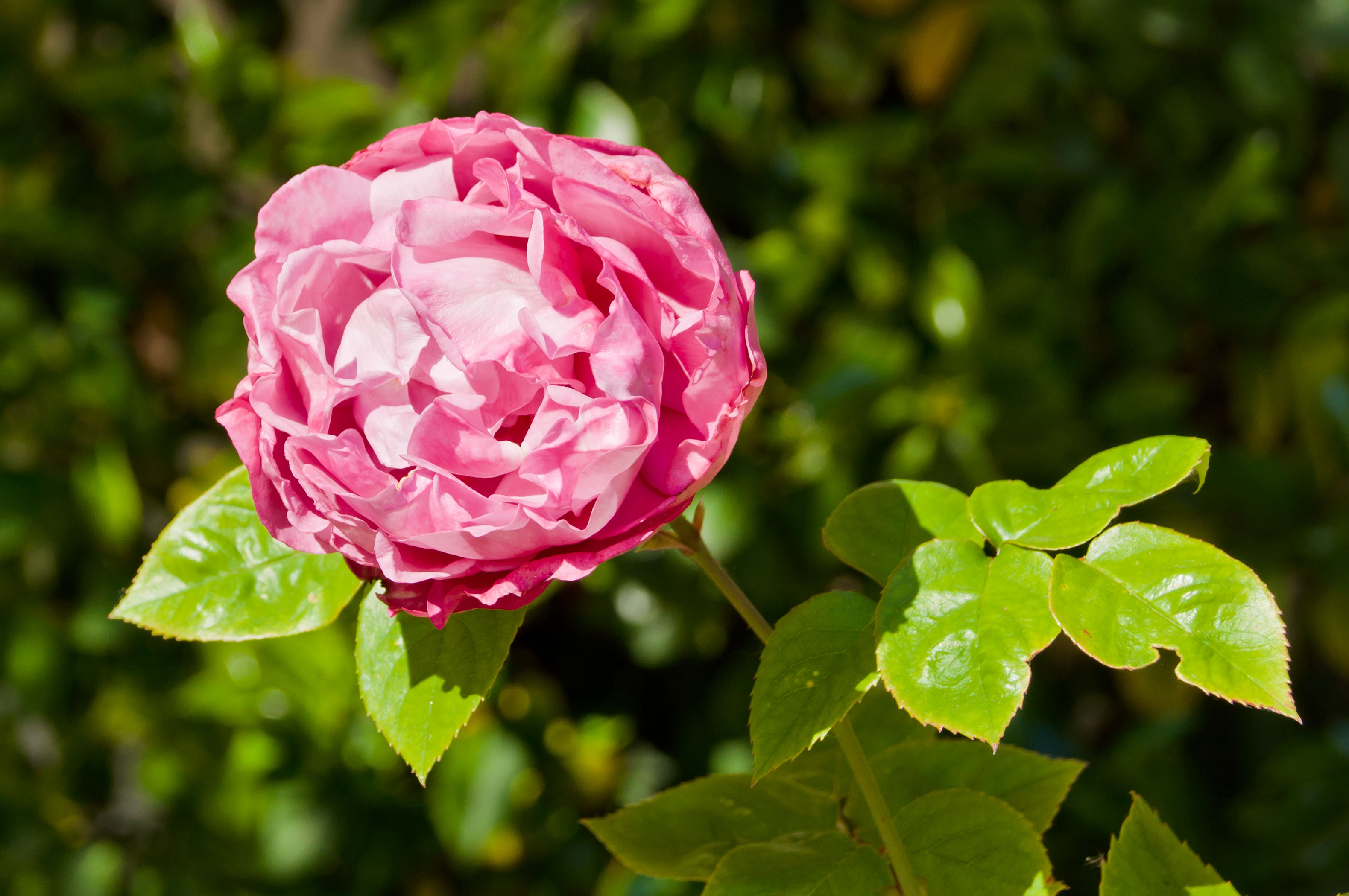 A Cultivar of Rosa at Western Holiday Lodge in Three Rivers, California.